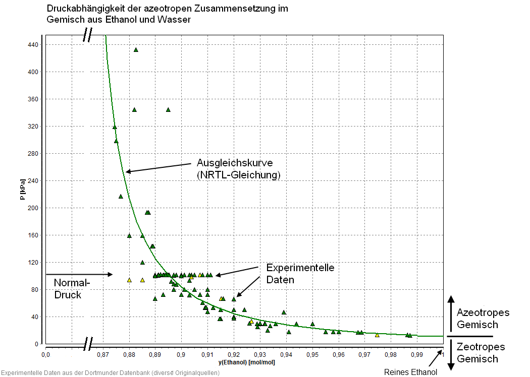 Pressure dependency of the azeotropic composition in the mixture of Ethanol and Water